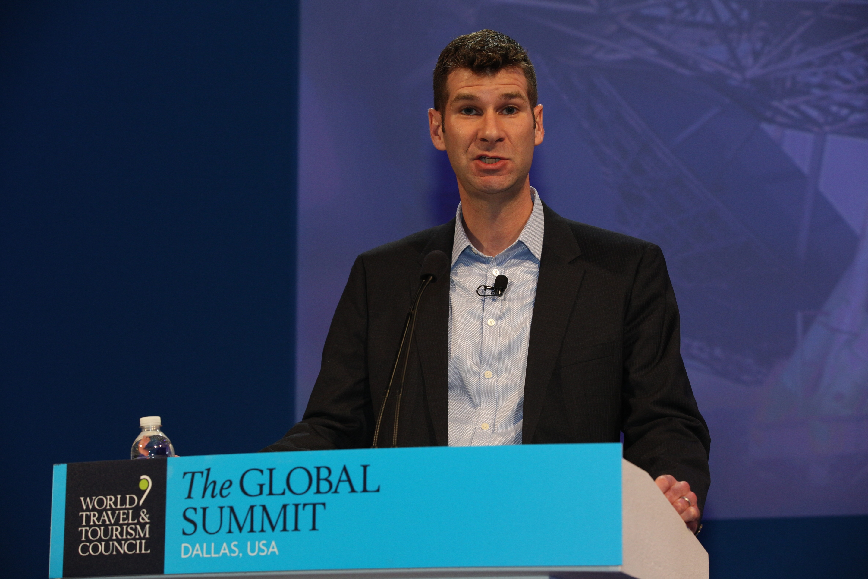 Global Summit 2016 World Travel & Tourism Council Flickr images